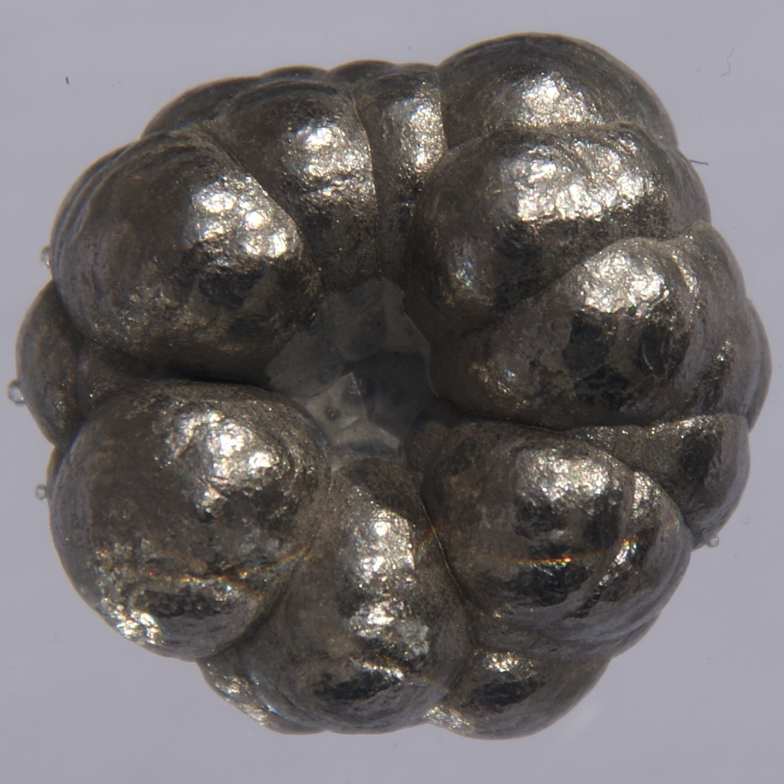 Pure Nickel, obtained by electrolysis of a rod.